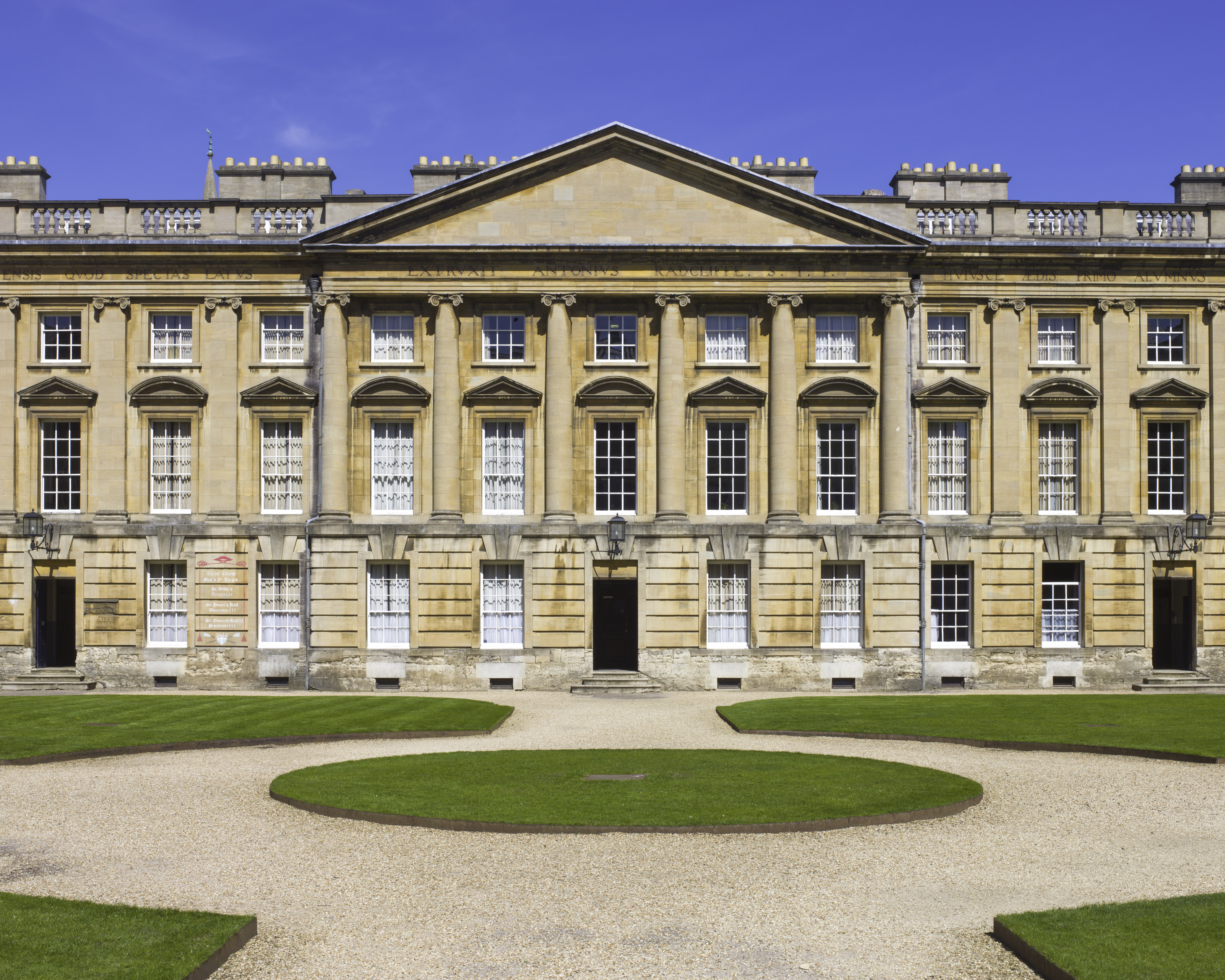 Christ Church College (Oxford University) founded in 1546. View of Peckwater Quadrangle.